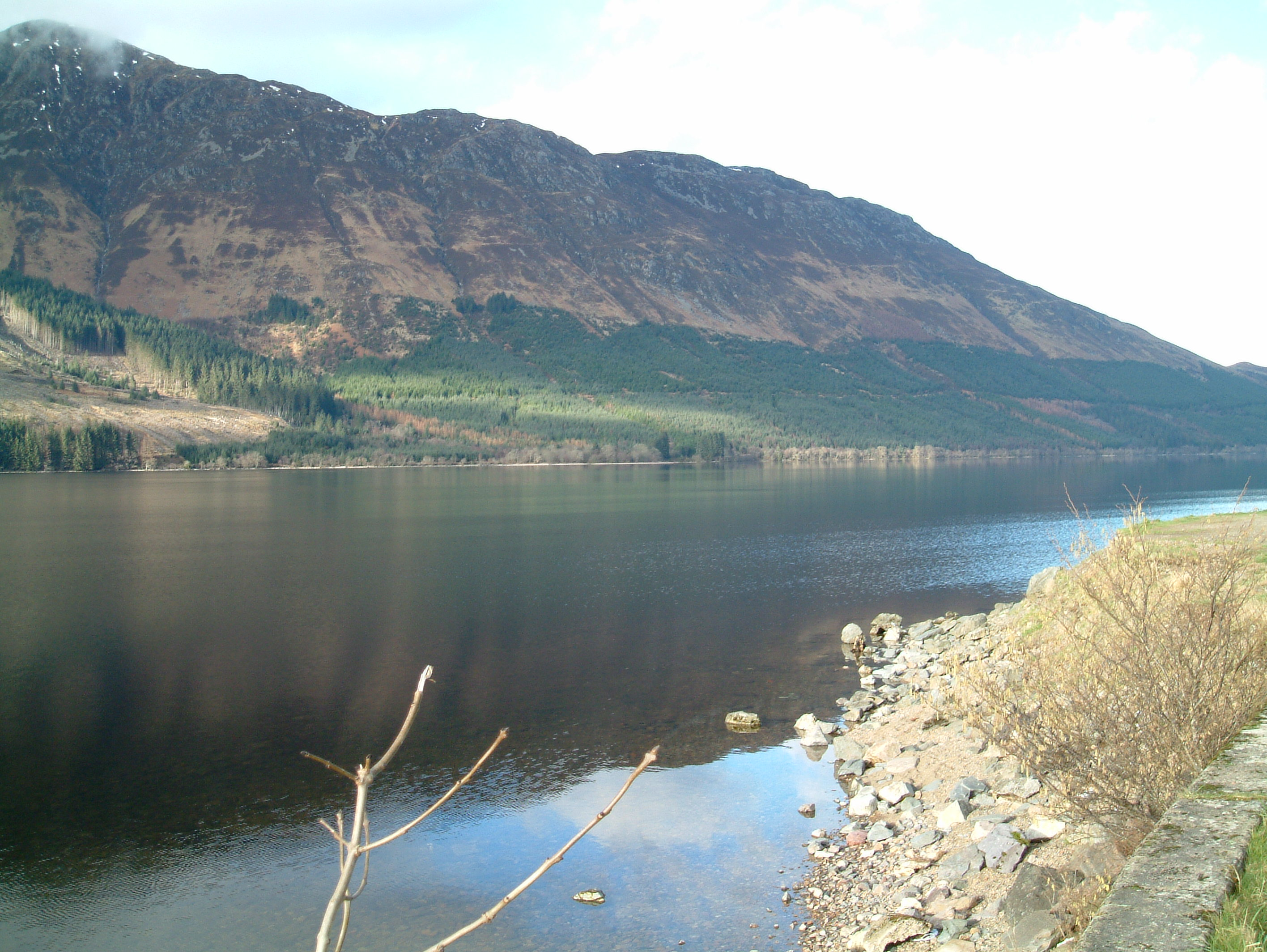 A picture of the Caledonian Canal.